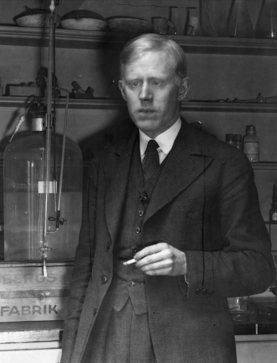 Odd Hassel, around 1935. Oslo Museum.